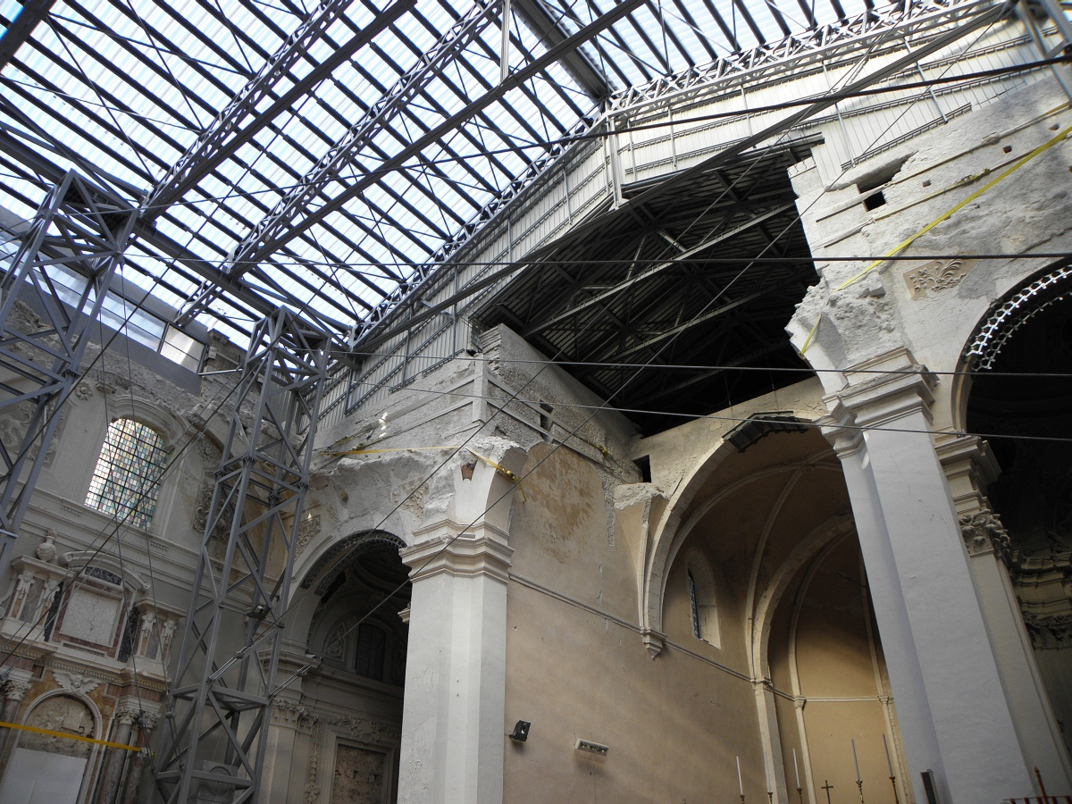 L'Aquila 2010